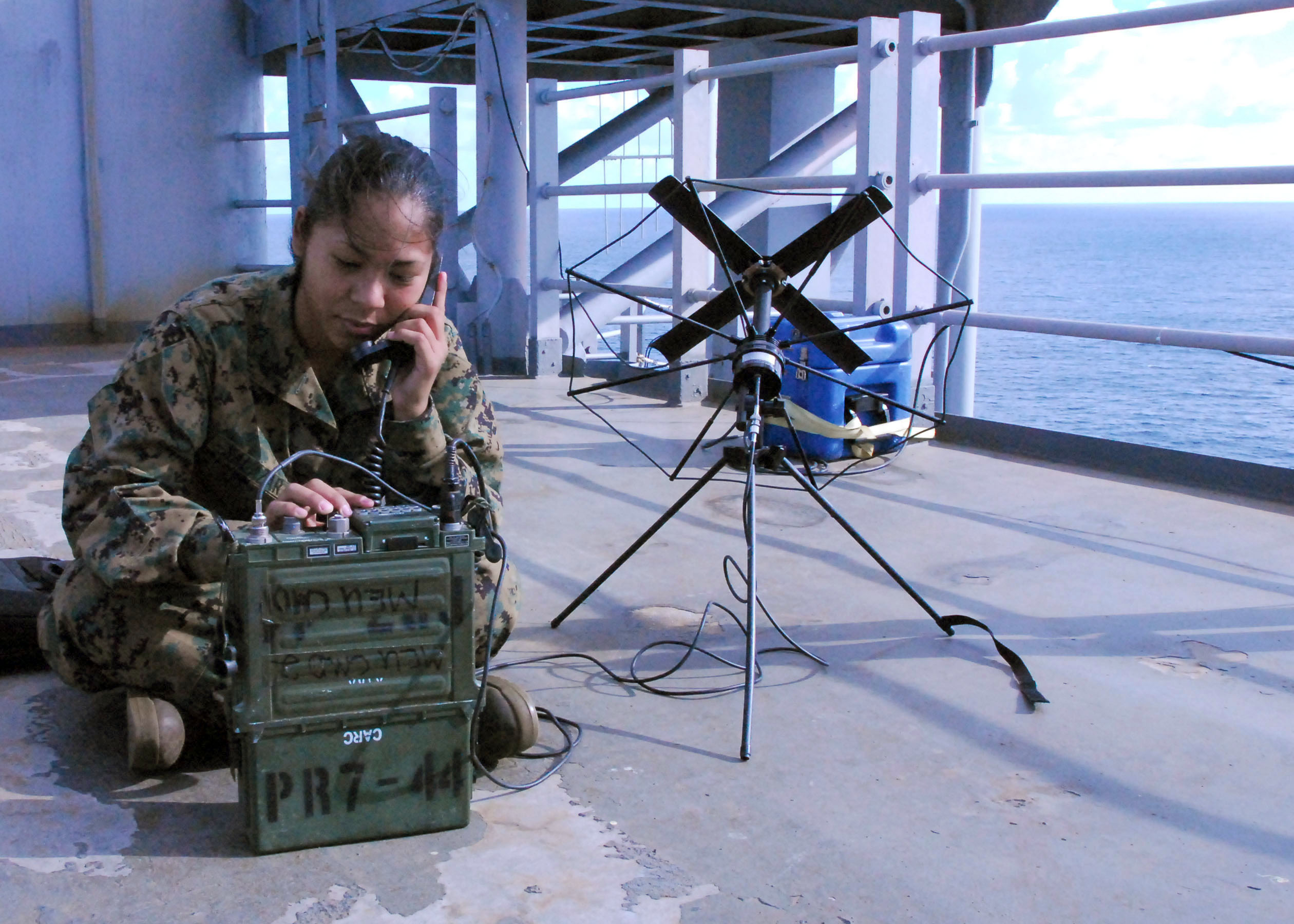 ATLANTIC OCEAN (Dec. 11, 2007) Marine Lance Cpl. Christine Salazar, a member of the 24th Marine Expeditionary Unit, uses a PRC-117 radio and SATCOM antenna to receive communications while aboard the amphibious assault ship USS Nassau (LHA 4) during the Nassau's composite training exercise (COMPTUEX). COMPTUEX provides a realistic training environment to ensure the Strike Group is capable and ready for deployment. U.S. Navy photo by Mass Communication Specialist 1st Class Leslie L. Tomaino (Released)